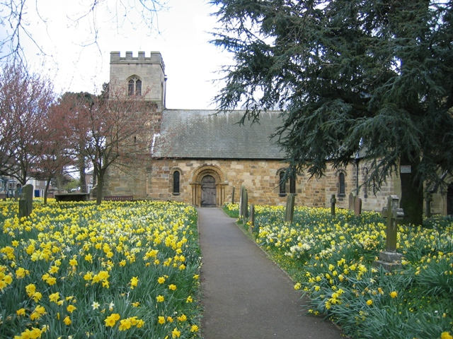 St Oswalds Sowerby A beautiful display of daffodils in the graveyard at St Oswalds.